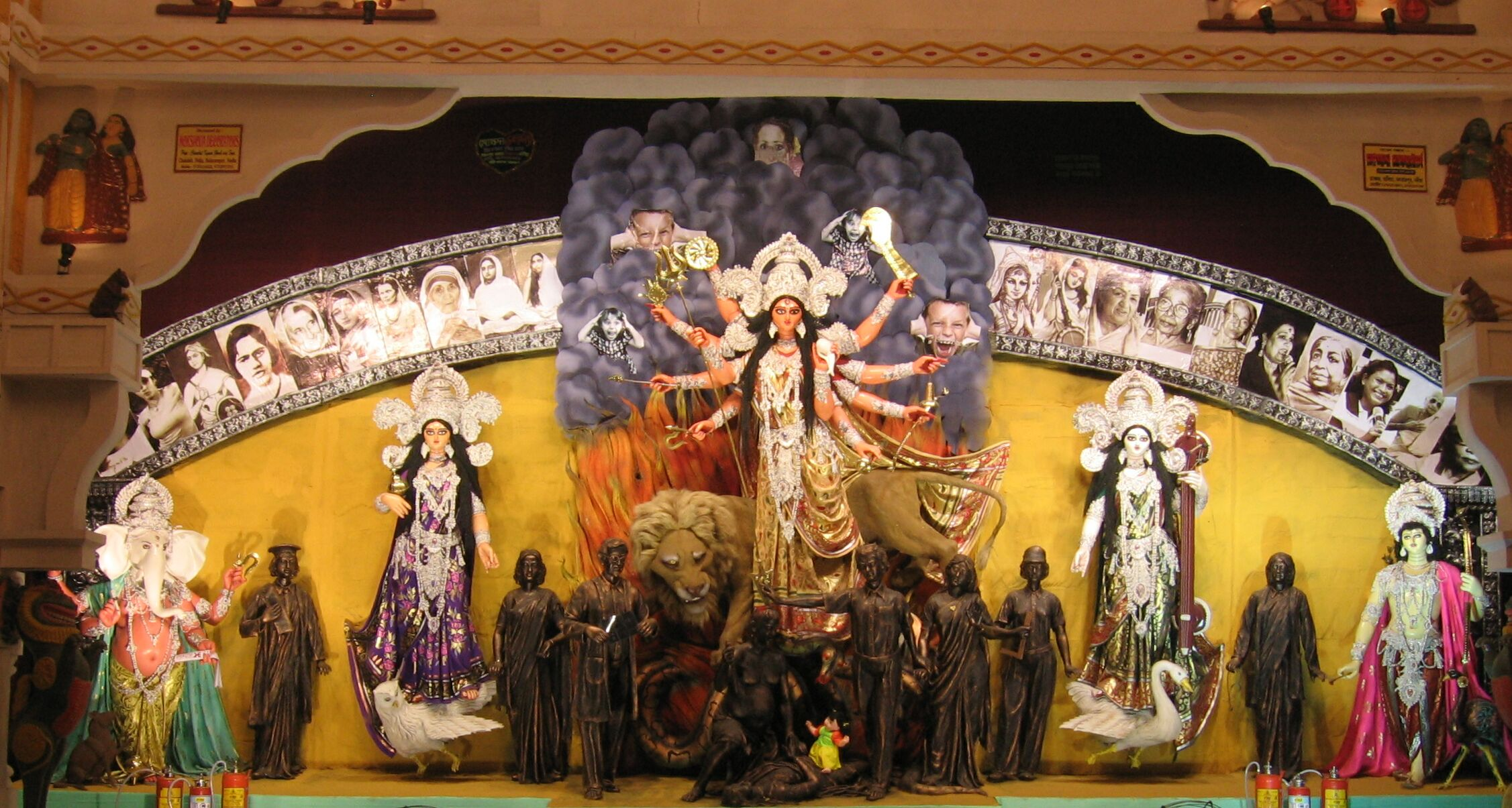 the Durga Puja pandal at muhammad ali park in Kolkata is known for its social themes. The 2007 pandal is in the style of stepped gopurams as in the Madurai Meenakshi temple. Inside is a commentary on the role of women and female foeticide in modern society, foregrounding the image of goddess durga killing mahishasura. While women doctors, lawyers and engineers watch from the side (you can see them in the pic), a doctor is shown with a ultrasound report based on which a man in the middle is cutting open an woman's belly to abort a female child.